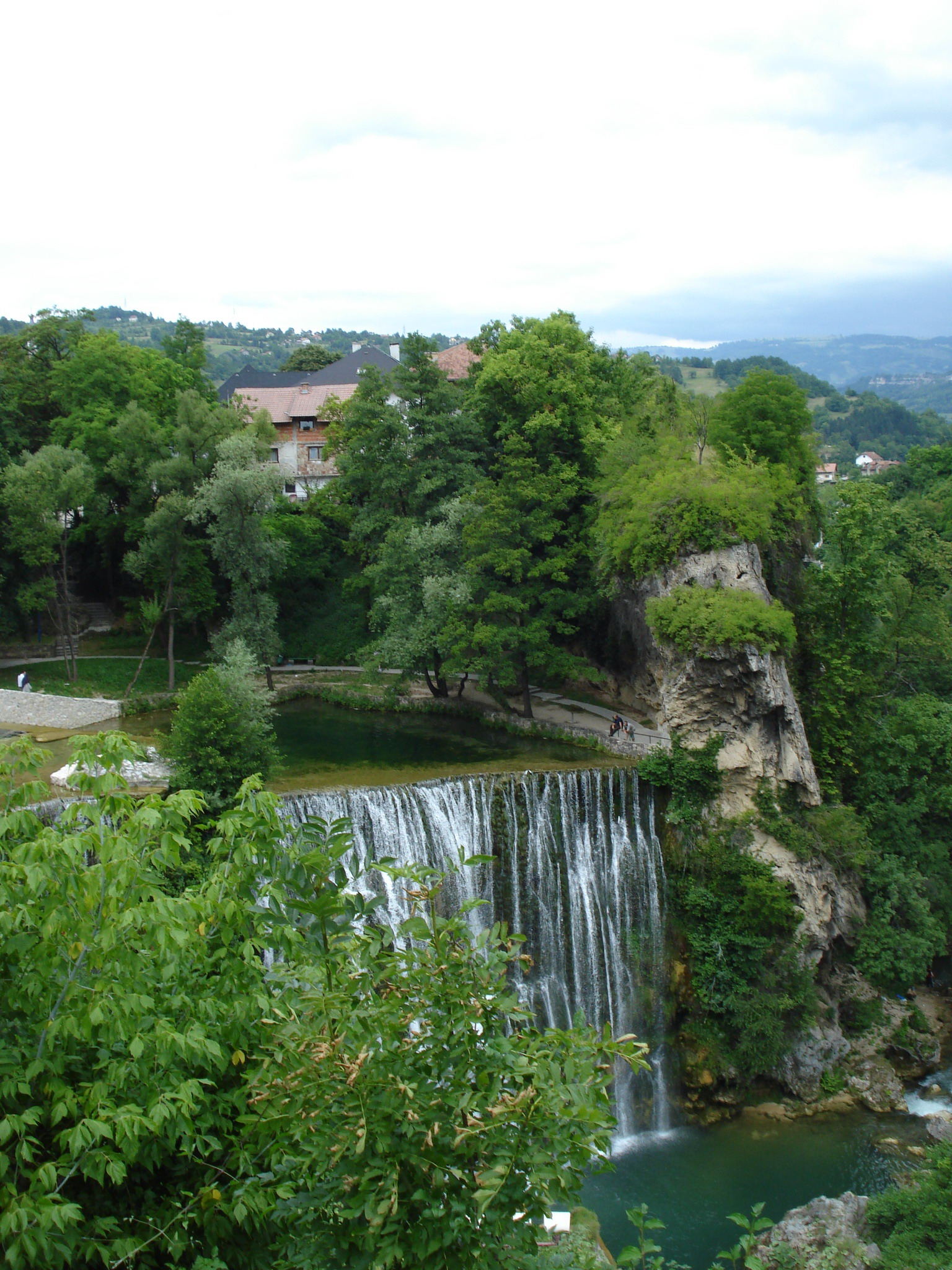 Waterfall in Jajce, old Bosnian town